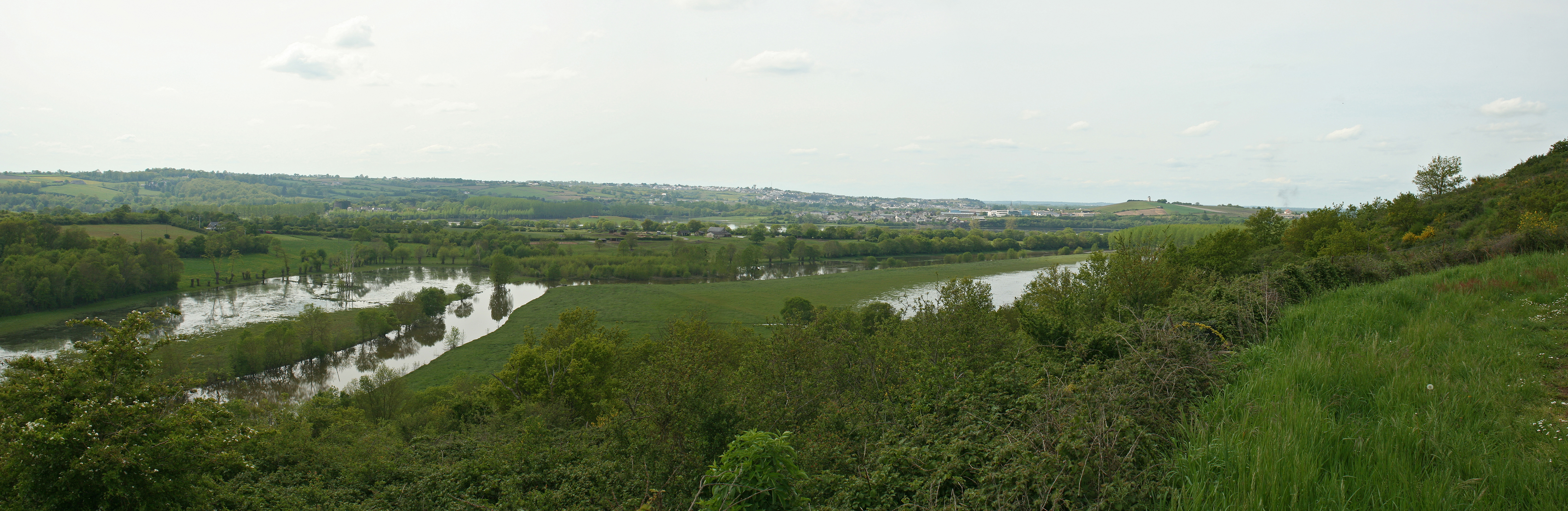 Panoramic view of the Layon valley from Les moulins d'Ardenay (Litt. the Ardenay windmills) in Maine-et-Loire, France. In this picture, the Layon is flooding in the nearby fields, which is rather common in spring.